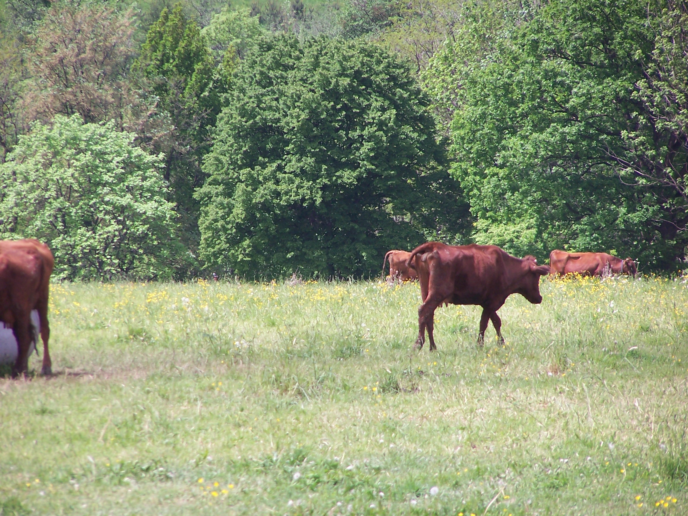 Red cows in the Lesser Poland voivodeship